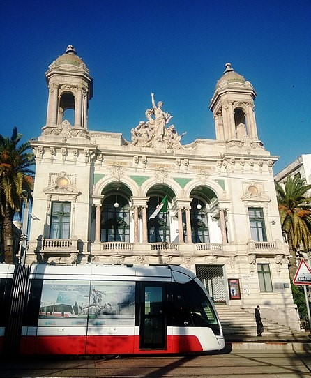 Oran tramway, Algeria